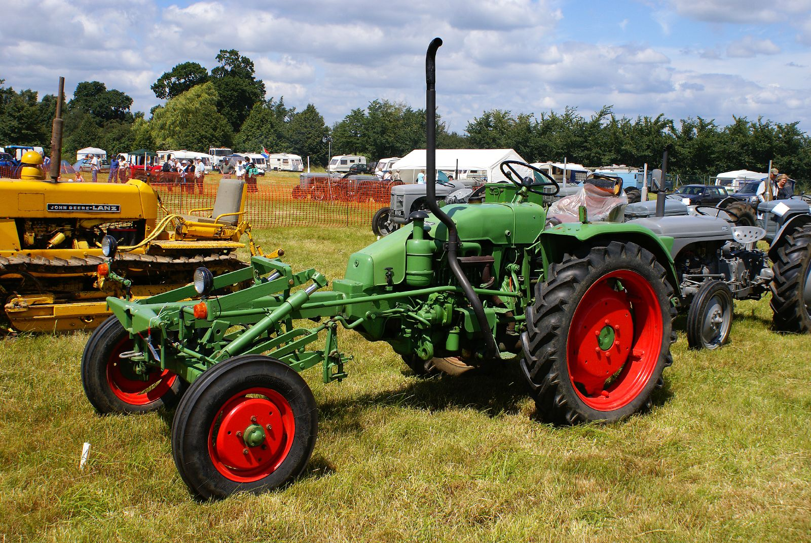 Side view of a Fendt GT, Wings Wheels and Steam Country Fair at Rougham Bury, St Edmunds, Suffolk, UK